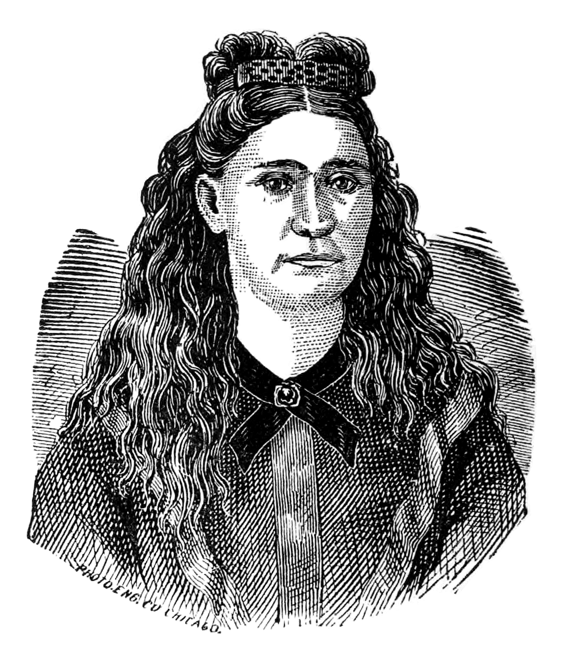 Engraving of Julia A. Moore.